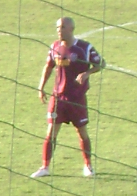 French footballer, CFR Cluj defender, Anthony da Silva (Tony)